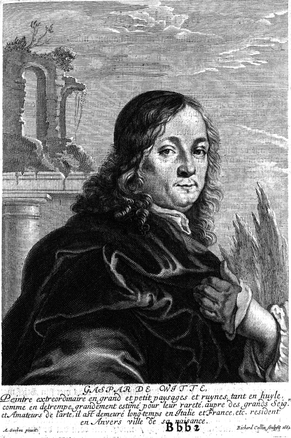 Het Gulden Cabinet, painter biographies by Cornelis de Bie for the Antwerp publisher-engraver Jan Meyssens, 1662 Gaspar de Witte p 395